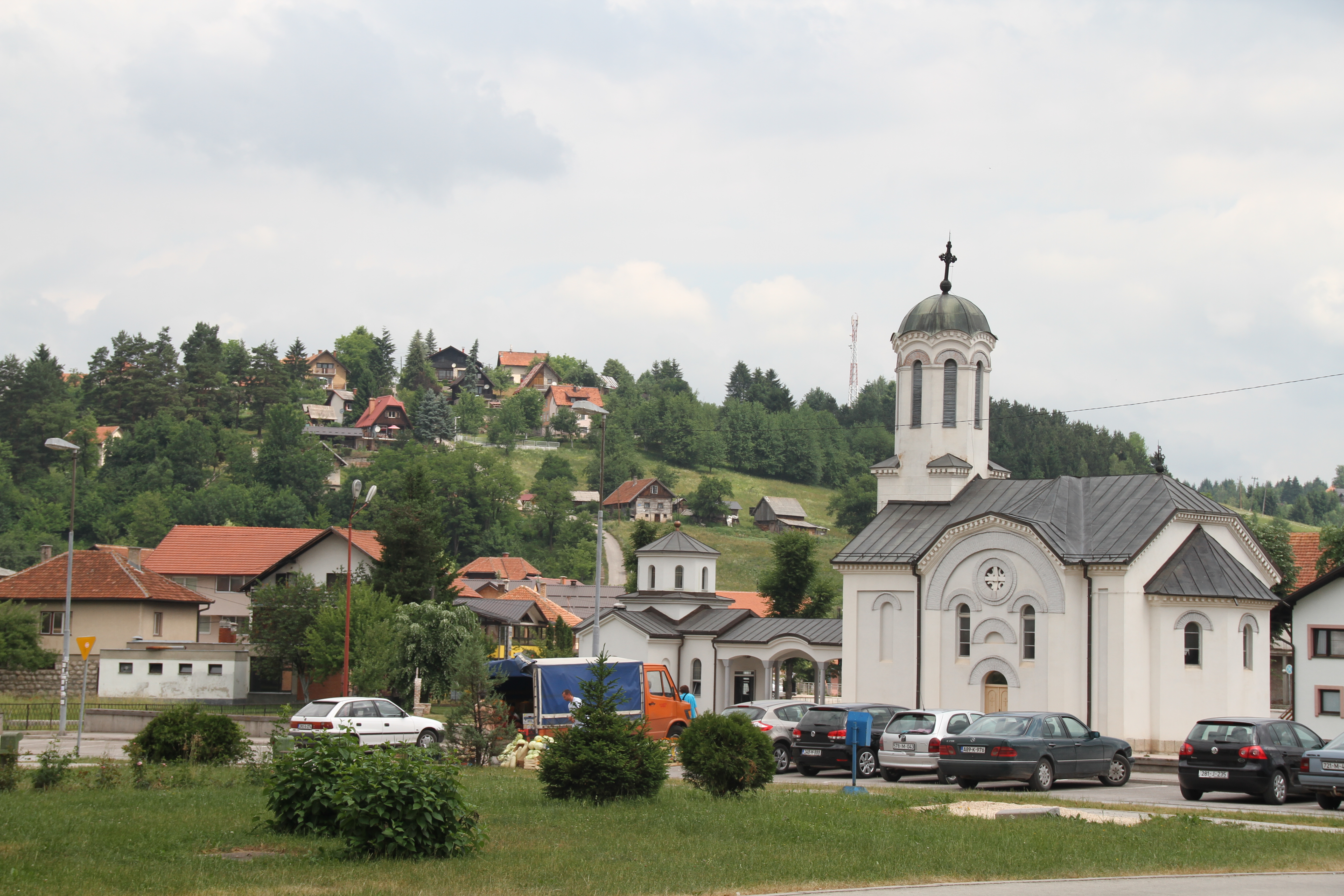 The St Grigorij orthodox serbian church of Pale - a city oin Republika Srpska, Bosnia-Hercegovina.